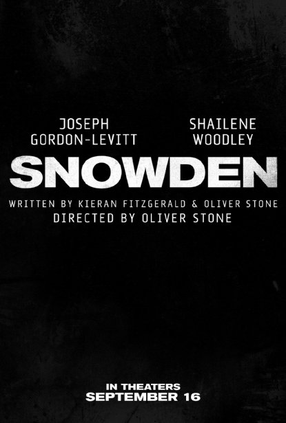 Snowden teaser poster with updated release date